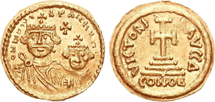 Coins of the Avars 6th-7th centuries CE imitating Ravenna mint types of Heraclius. DИNDCVC IPΛILhVΩ (first D and both C's retrograde), crowned, draped, and cuirassed facing busts of Heraclius, with short beard, and Heraclius Constantine, beardless; cross above / VICTORI AVCC, cross potent set on three steps; Δ//CONOB.